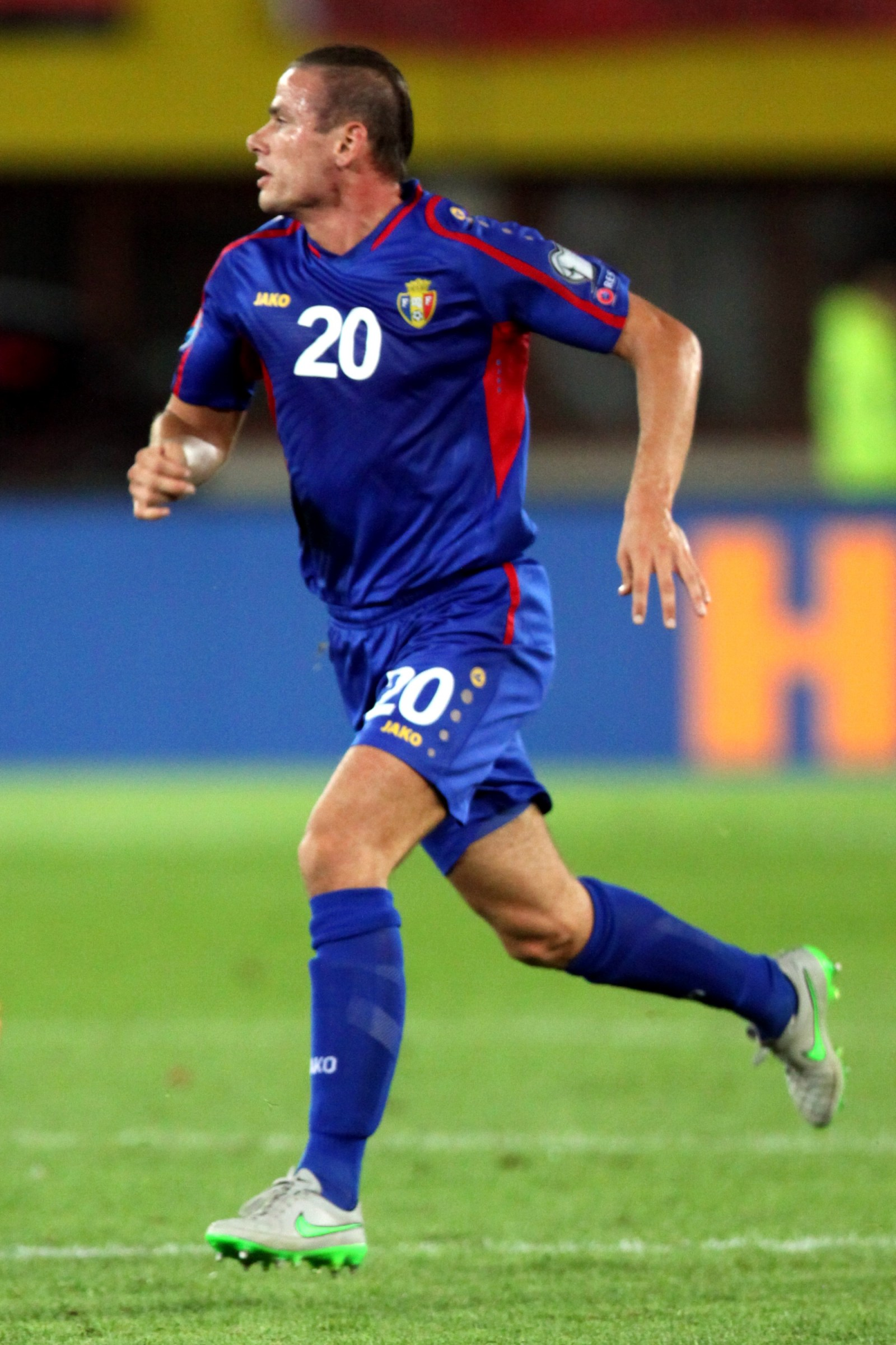 UEFA Euro 2016 qualifying, Group G – Austria national football team (red shirts) vs. Moldova national football team (blue shirts) on 2015-09-05 in Ernst-Happel-Stadion, Vienna: The photo shows Petru Racu